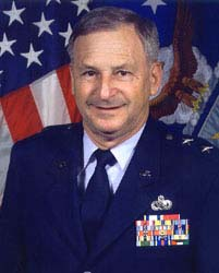 Maj. Gen. Mark V. Rosenker is mobilization assistant to the Commander, Air Force Reserve Command, Robins Air Force Base, Ga. General Rosenker entered the Air Force in 1969 as a graduate of the University of Maryland ROTC program. He has worked at all levels of Air Force public affairs during his active duty and Reserve career. In his civilian capacity, he has been a member of the National Transportation Safety Board since March 21, 2003; Vice Chairman since April 3, 2003; and acting Chairman since March 2005. He was sworn in for his two-year term as the 11th Chairman of the NTSB on August 11, 2006.